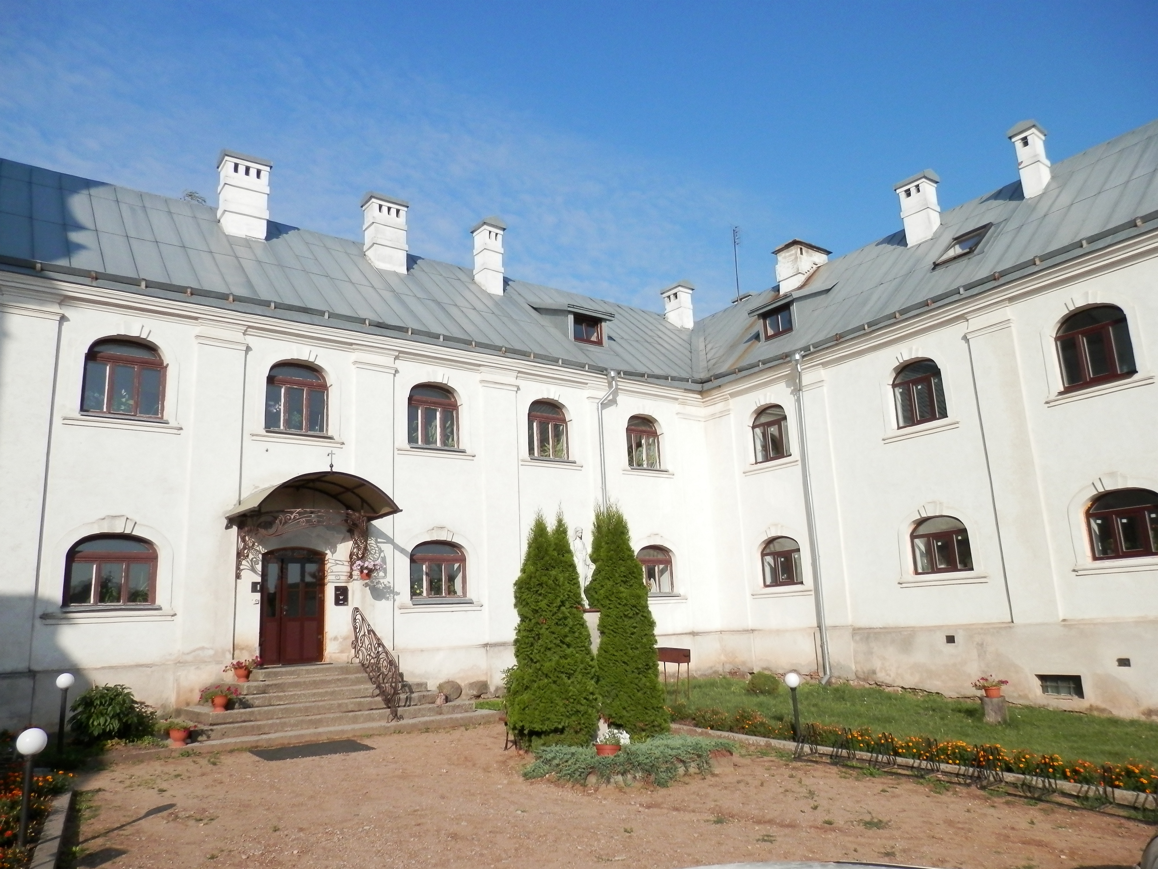 Franciscan monastery in Ivyanets, Belarus.